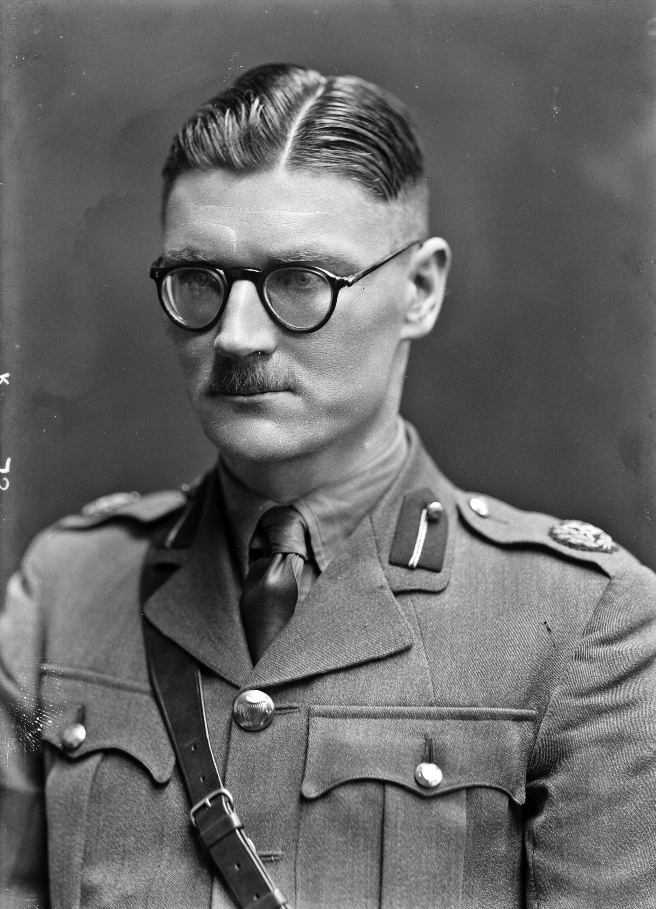 For Friday we have an image of Hugo McNeil that this poster has never seen before! Looking very "HQ Staff" with the red tabs on his collar, his hair brylcreemed down and a very serious look on his face he appears the very essence of a military man! I would like to apologise for the failure to post yesterday, this Morning Mary had to attend A&E and was tied up there for most of the day and the backup Marys were away from base and unable to assist! Photographer: Brendan Keogh Collection: [#//catalogue.nli.ie/Collection/vtls000029624 Keogh Photographic Collection] Date: between 1914-1923 NLI Ref: KE 72 You can also view this image, and many thousands of others, on the NLI’s catalogue at